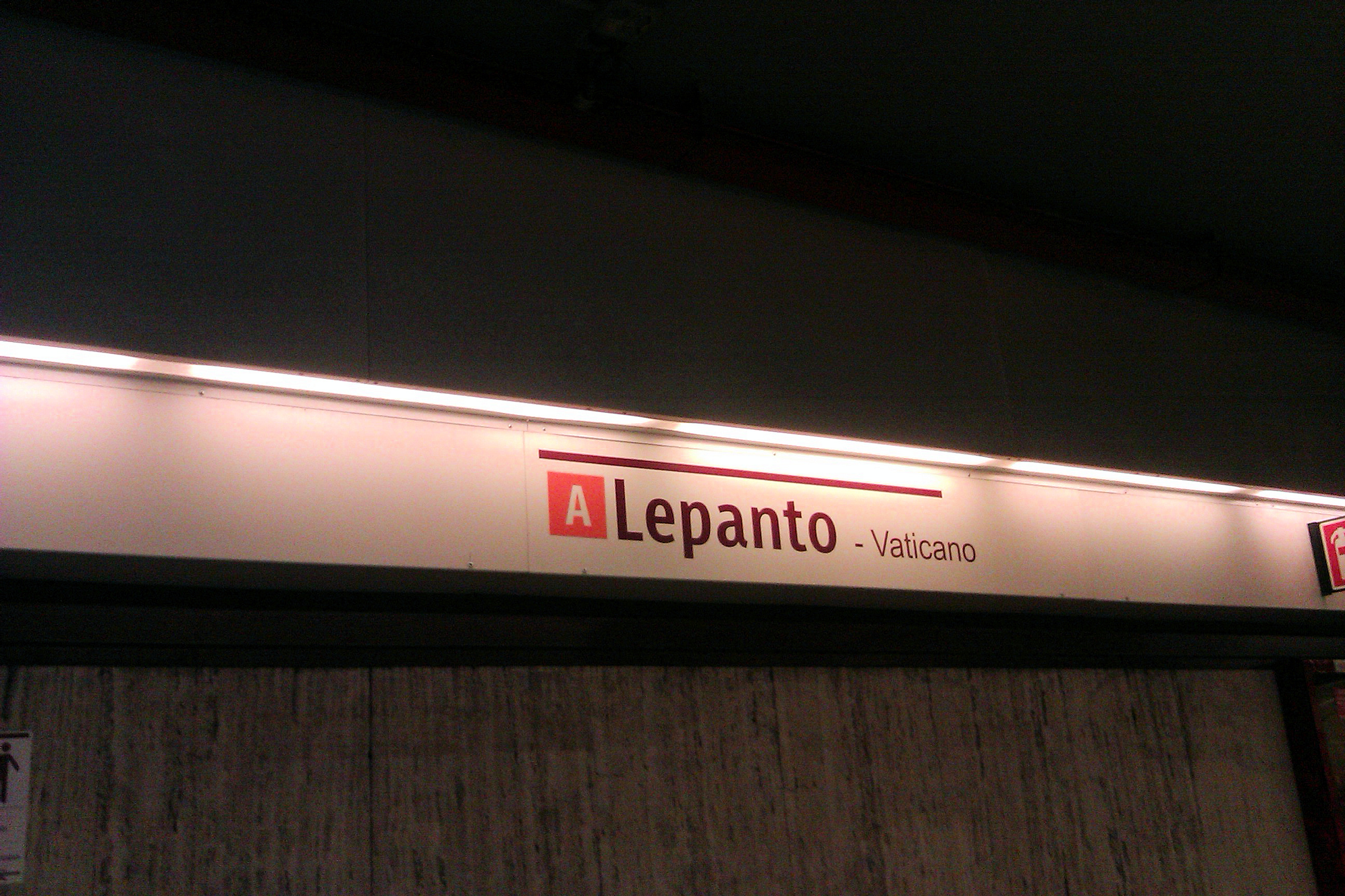 Panel on platform after the renaming in "Lepanto - Vaticano" on early December 2015, for the Extraordinary Jubilee of Mercy